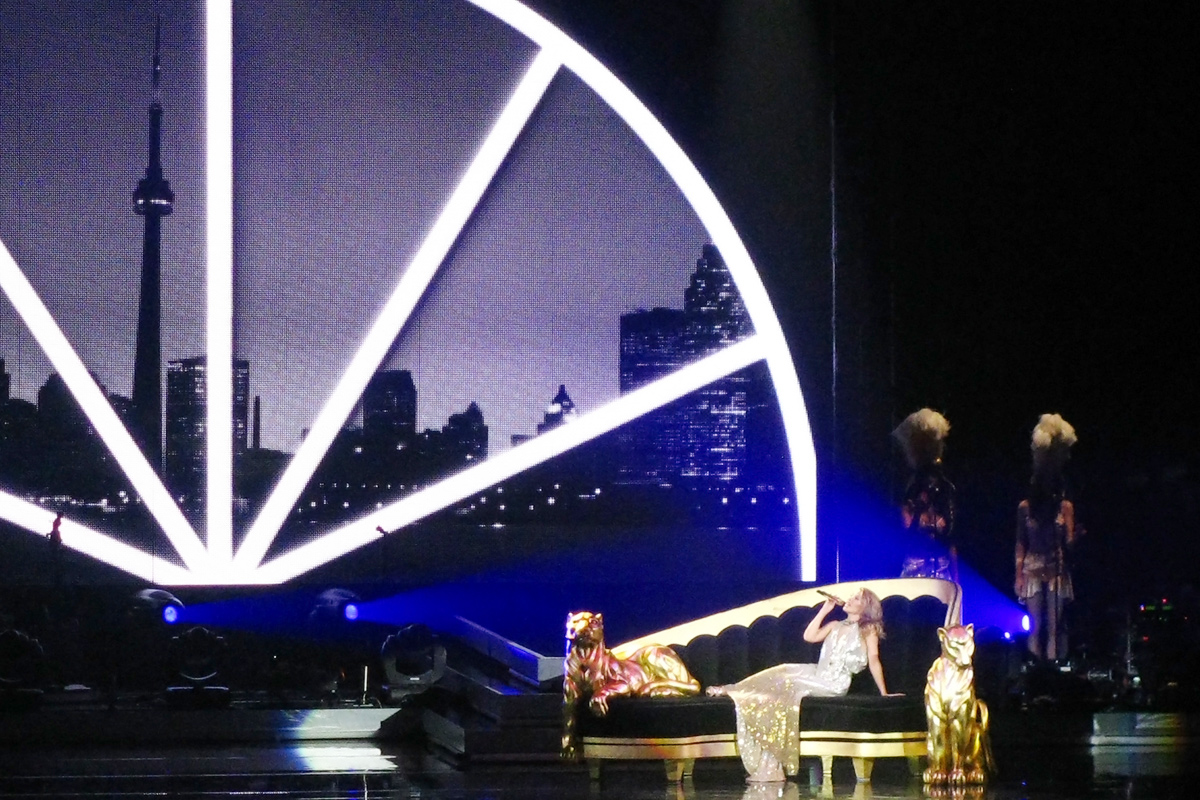 Kylie performing at her first Canadian Tour at Toronto